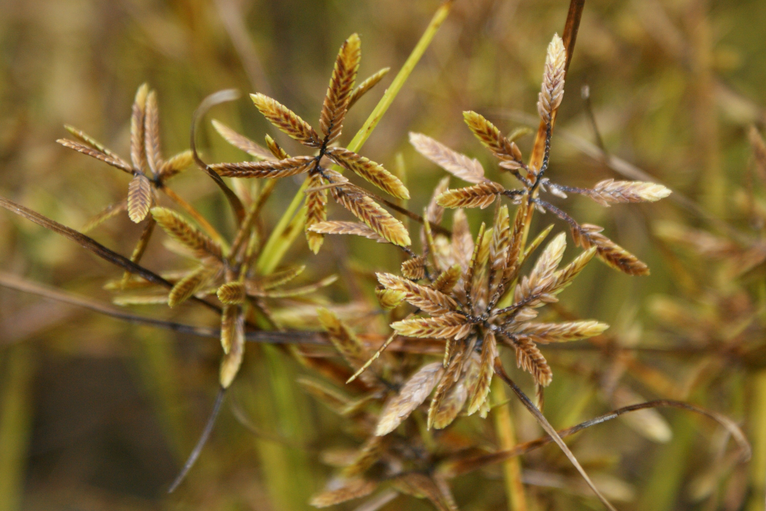 Cyperus flavescens